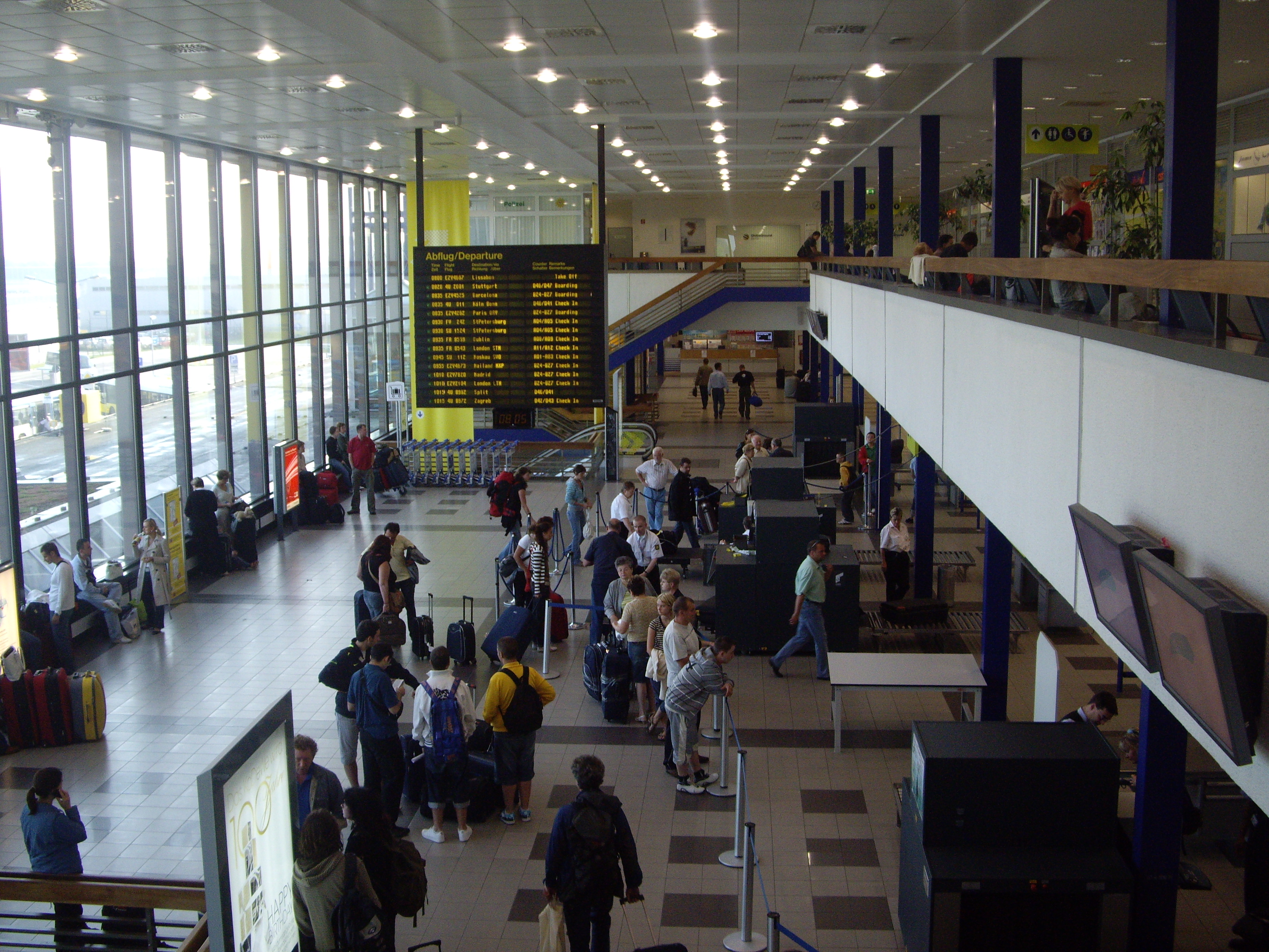 The large waiting room in the Schönefeld International Airport.